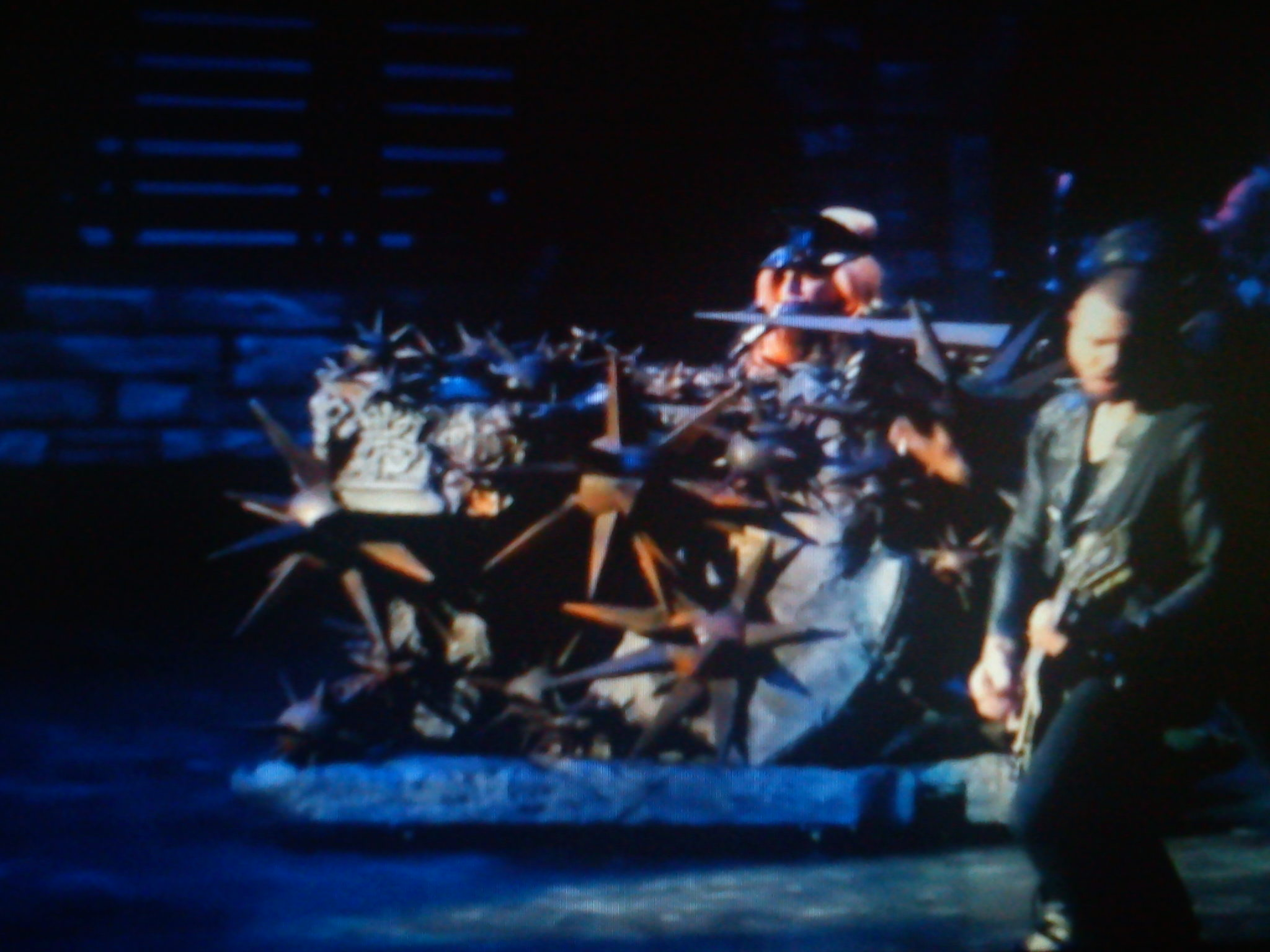 The Queen Live Portland